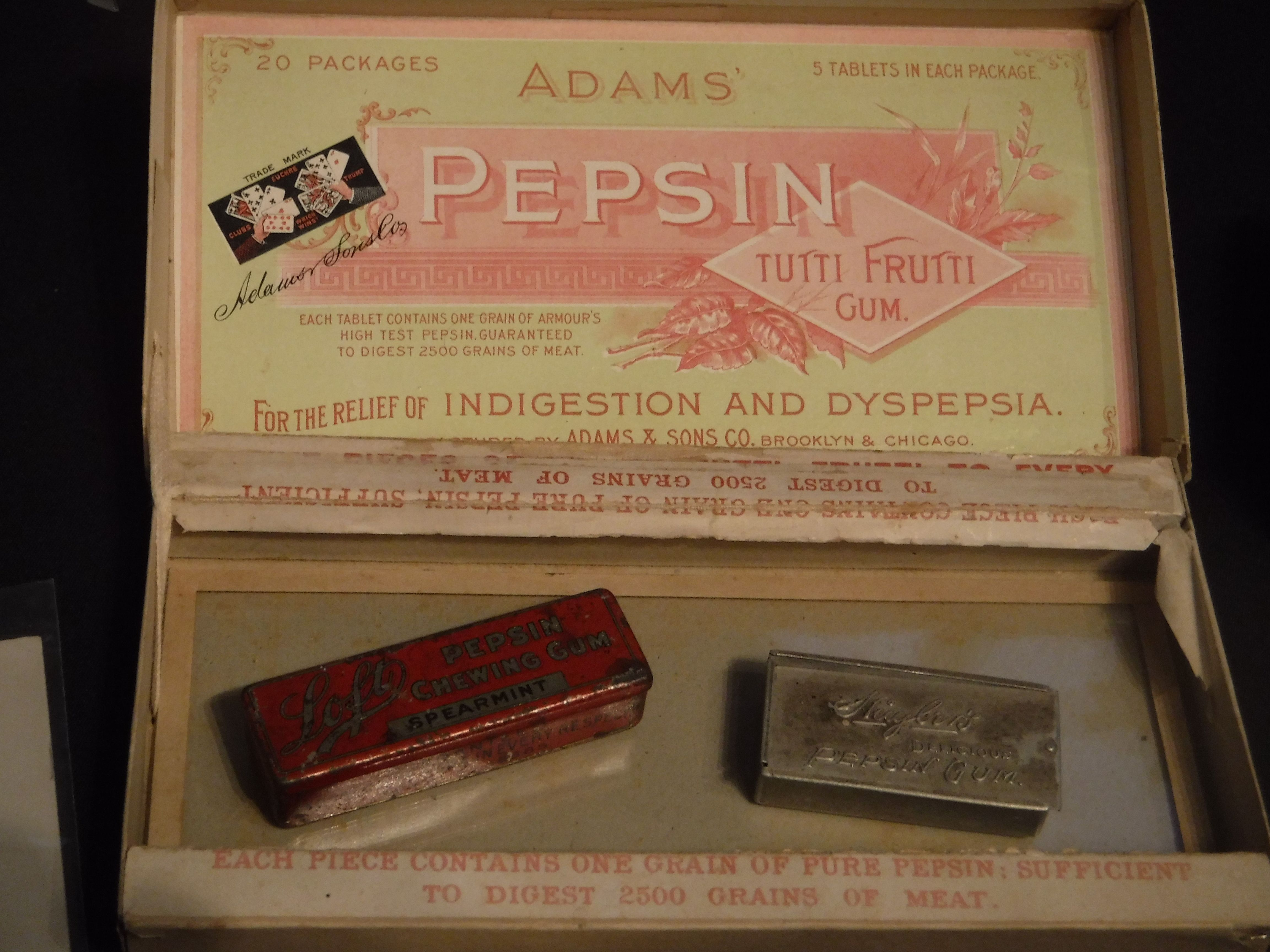 Adams Pepsin Tutti Frutti Gum, chewing gum packaging and gum, "For relief of indigestion and dsypepsia"